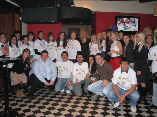 Osmeh na dar